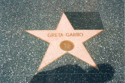 Star for Greta Garbo in Hollywood Walk of Fame (Los Angeles, USA)